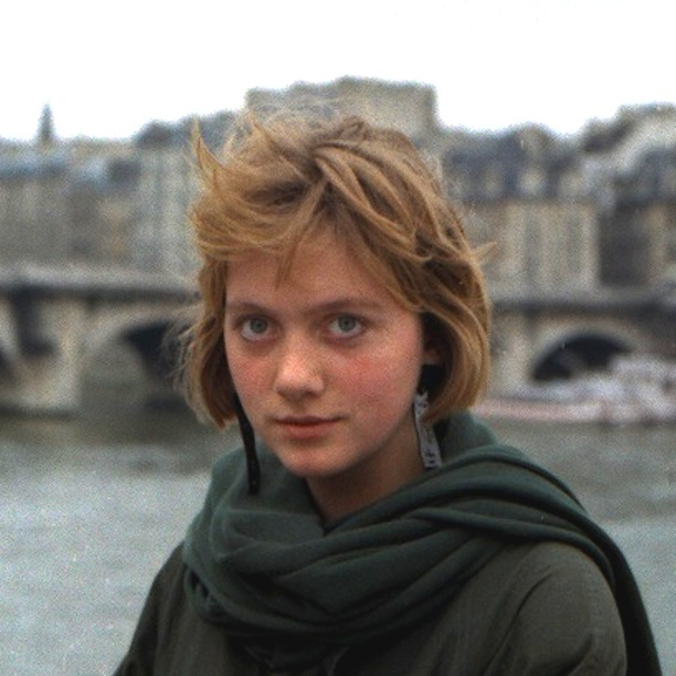 Witeske van Leeuwen, Paris 1988